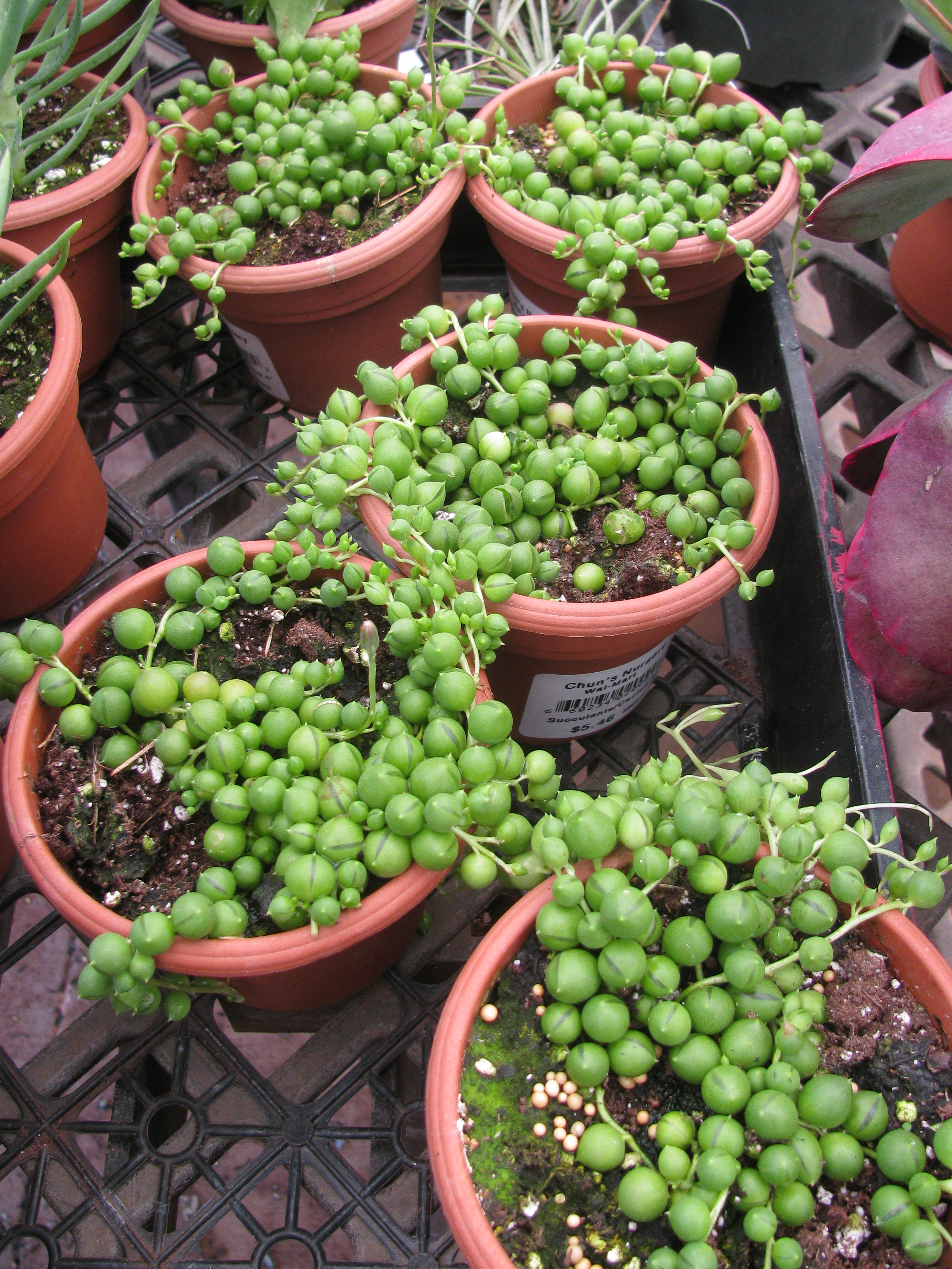 Senecio rowleyanus potted